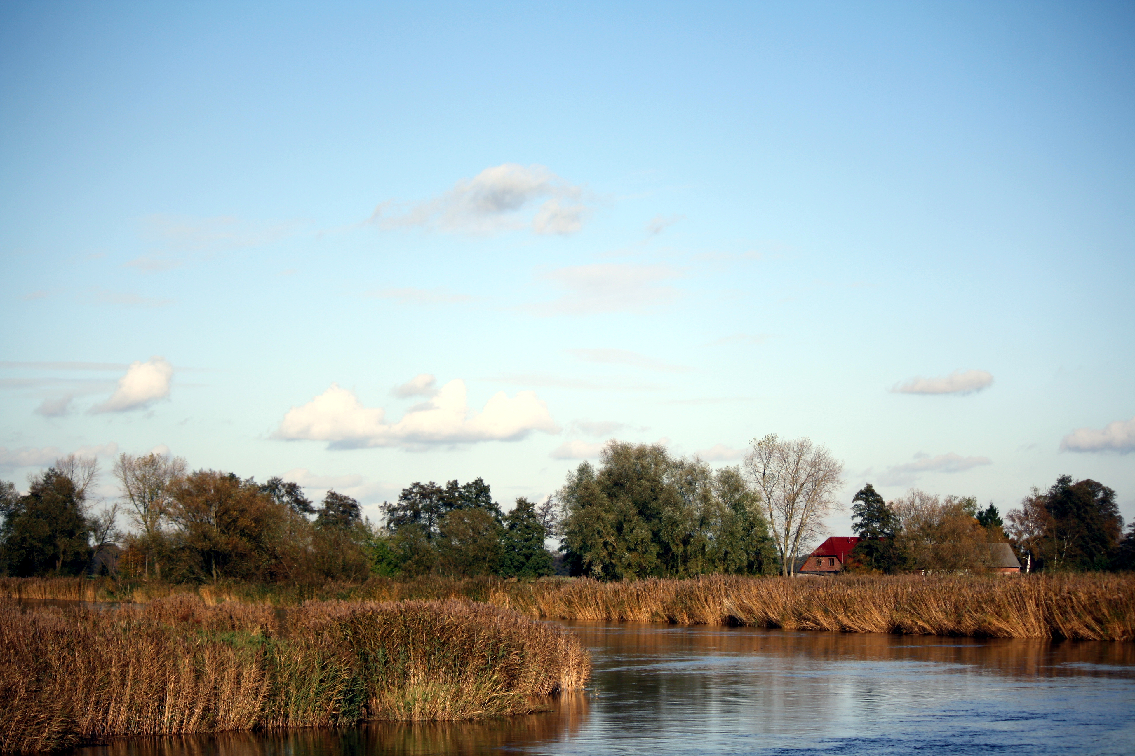 River Wümme in Bremen- Blockland, Germany.